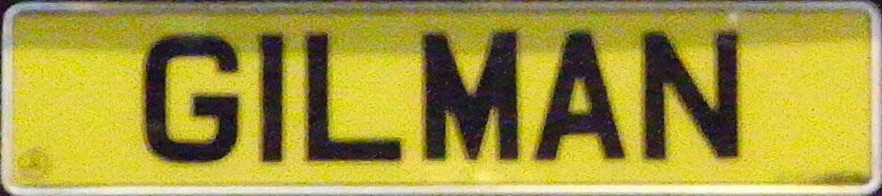 香港島中西區 (香港)